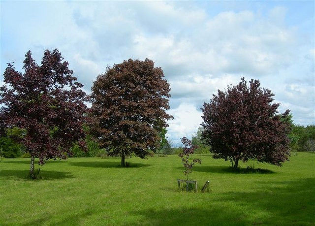 Auchincruive Arboretum The Arboretum at the Scottish Agricultural College's Auchincruive campus. The larger trees from the left: Royal Red Maple (Acer platanoides), Red Maple (Acer platanoides Schwedleri), & Purple Plum (Prunus pissardii Nigra). In the foreground, a small Malus Royalty.